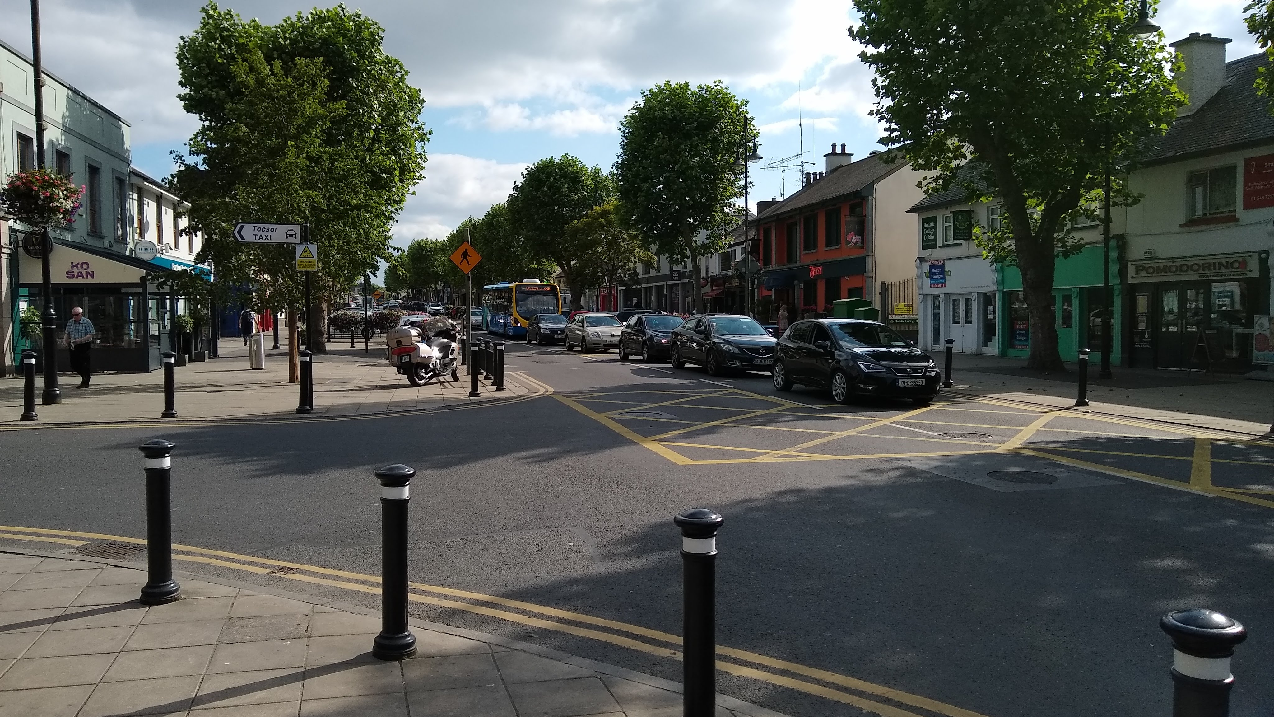 Looking south.